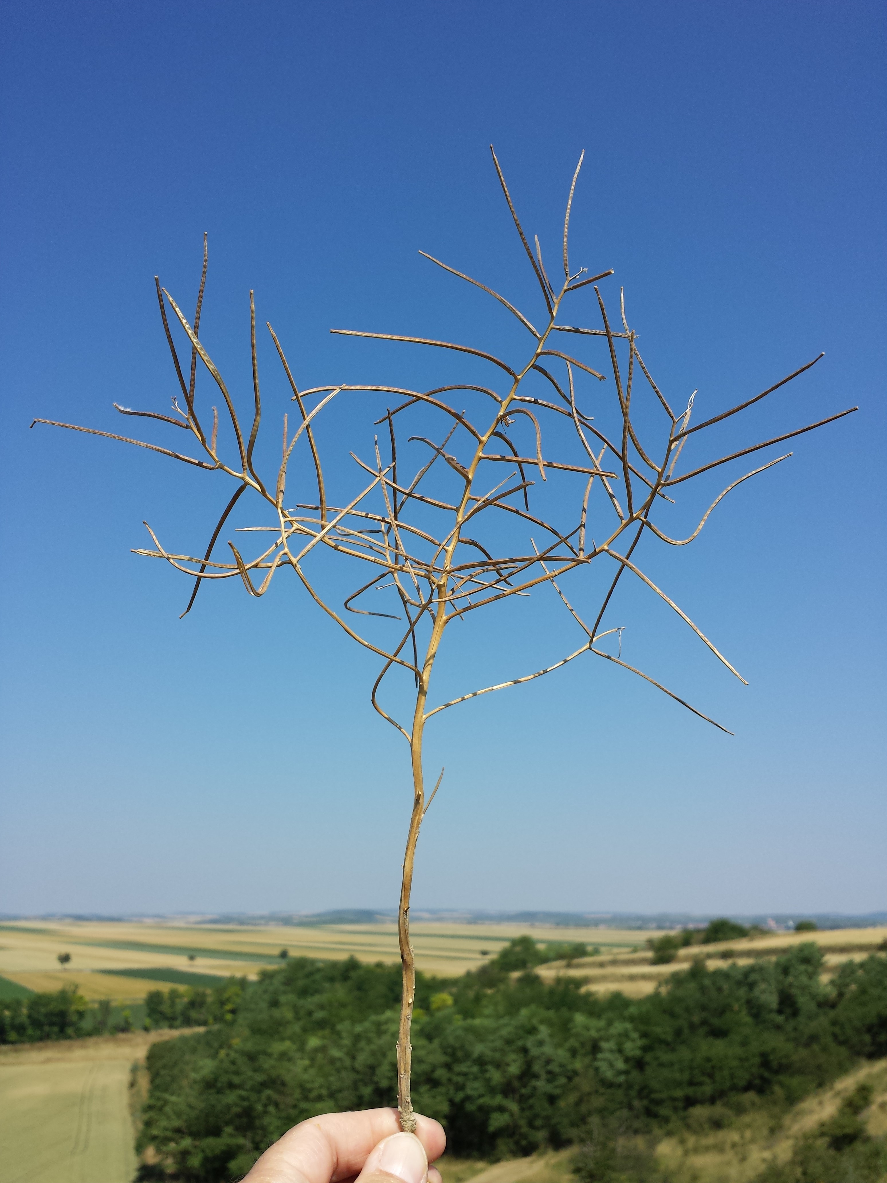 Habitus Taxonym: Erysimum repandum ss Fischer et al. EfÖLS 2008 ISBN 978-3-85474-187-9 Location: nature reserve Mühlberg near Goggendorf, district Hollabrunn, Lower Austria - ca. 275 m a.s.l. Habitat: border of a field